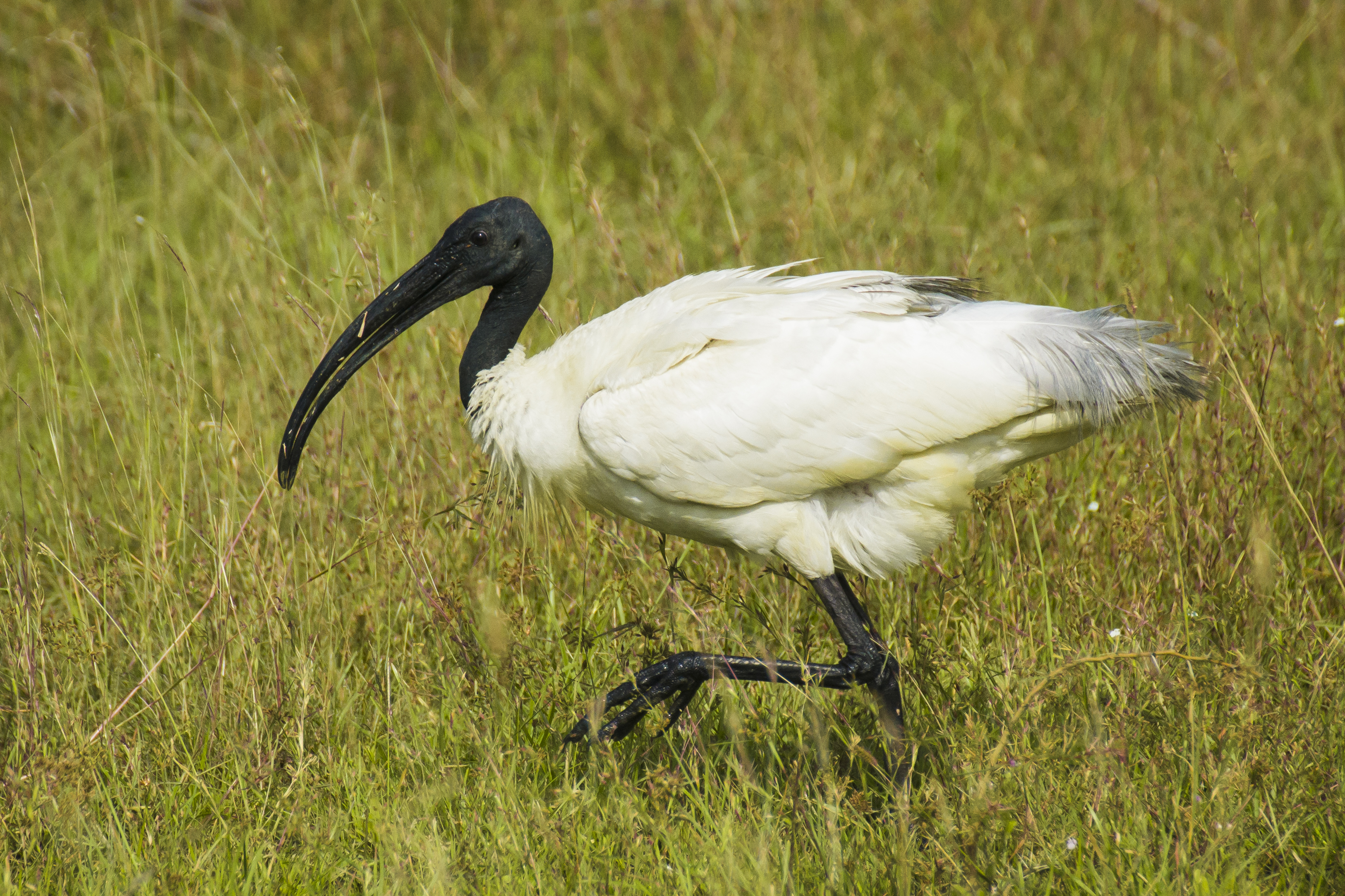 Black-headed Ibis (Threskiornis melanocephalus) photographed in natural habitat, Tirunelveli, India. It is a near-threatened species of wading bird breeding in Asia from India to the west as far as Japan in the east. A large waterbird with adults measuring 65-76 cm in length, it is the only native ibis species in its range that has an overall white plumage starkly contrasted against a conspicuous naked black neck and head and a black, down-curved beak. Tails of adults bear light grey ornamental feathers that turn black during the breeding season, as can be seen here. Like storks and spoonbills, it lacks a true voice-producing mechanism and is silent except for ventriloquistic grunts uttered by pairs at the nest. A versatile species that uses a large variety of natural and man-made habitats including freshwater and saltwater marshes, lakes and ponds, crop fields, irrigation canals, urban lakes and grazing lots, they are now categorized as Near Threatened (NT) by the International Union for Conservation of Nature as their population has declined considerably in southeast Asia.